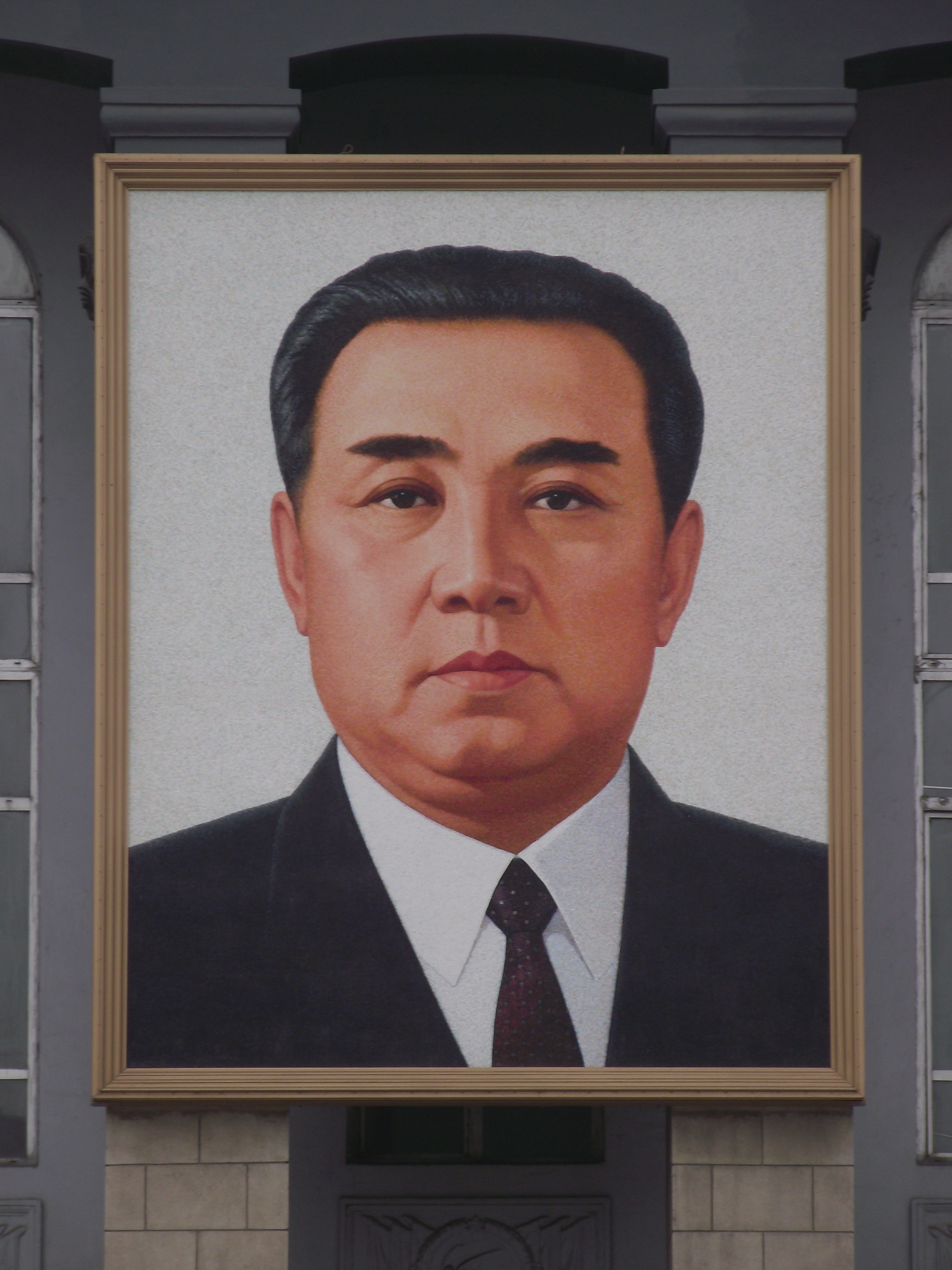 Headquarters of Workers' Party of Korea